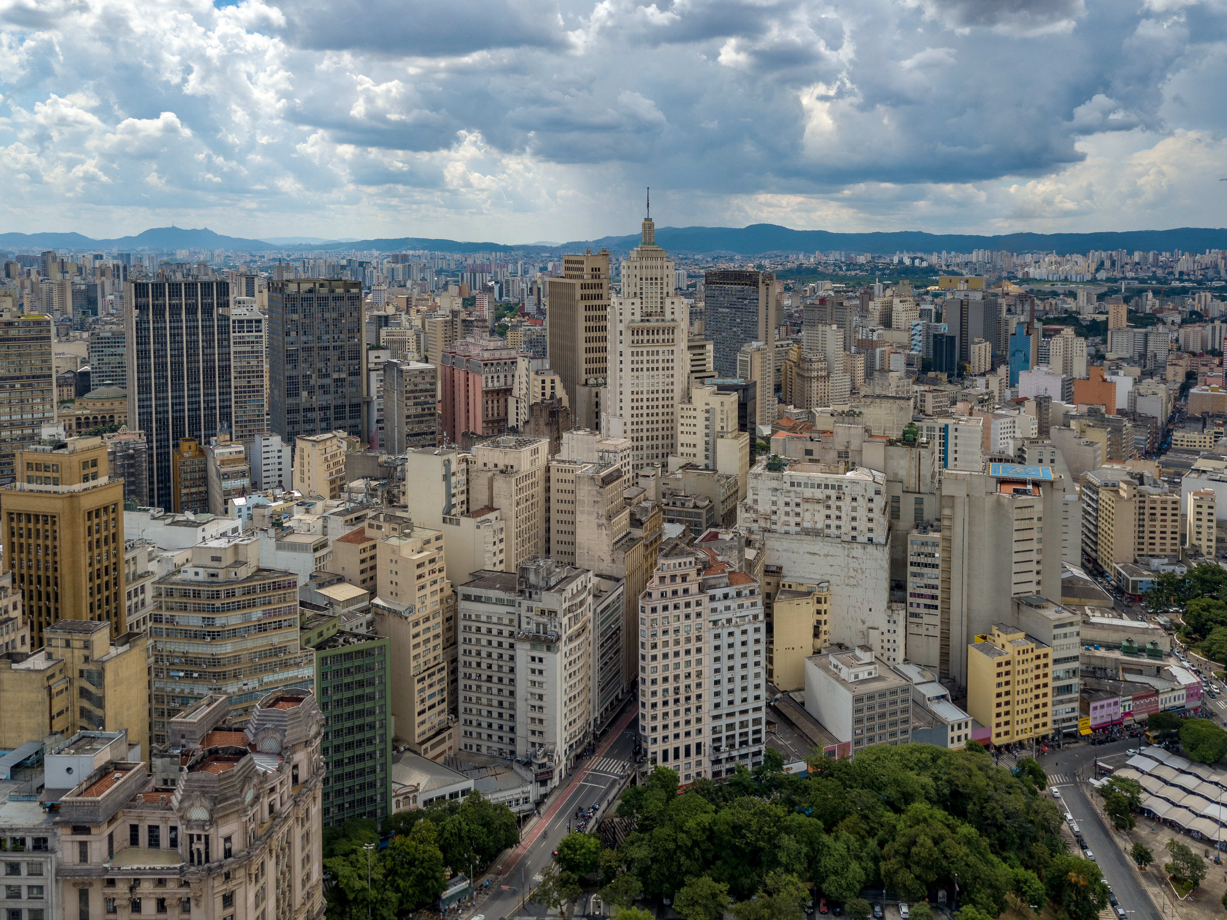 Altino Arantes Building